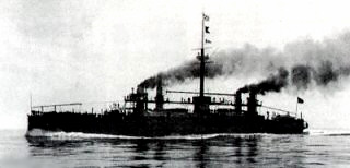 Italian battleship Lepanto in the Mediterranean Sea